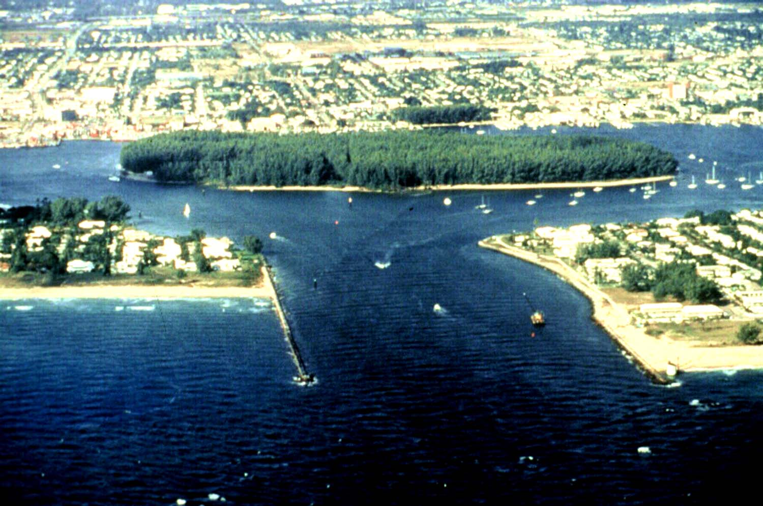 Lake Worth Inlet in Palm Beach County, Florida, USA. The inlet is also the entrance channel from the Atlantic Ocean to Lake Worth Lagoon and the port of the city of Palm Beach. The city of Palm Beach Shores lies just to the right of the channel (north) in the photograph. Peanut Island lies in the lagoon at the entrance. View is to the west from over the Atlantic Ocean. Coordinates: 26°46′20″N 80°2′14″W / 26.77222°N 80.03722°W